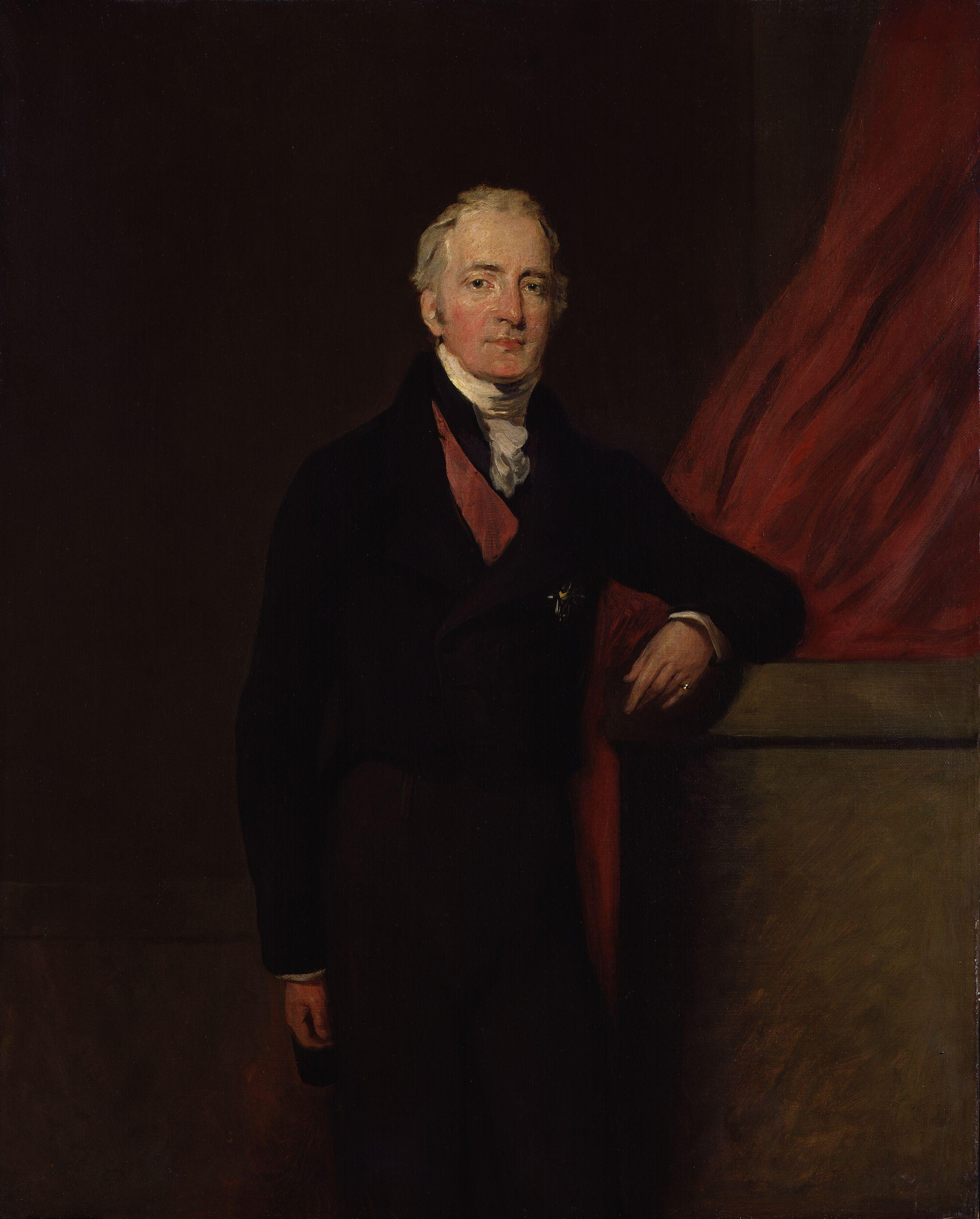 Henry Bathurst, 3rd Earl Bathurst, by William Salter (died 1875). All images in this batch have been confirmed as author died before 1939 according to the official death date listed by the NPG.